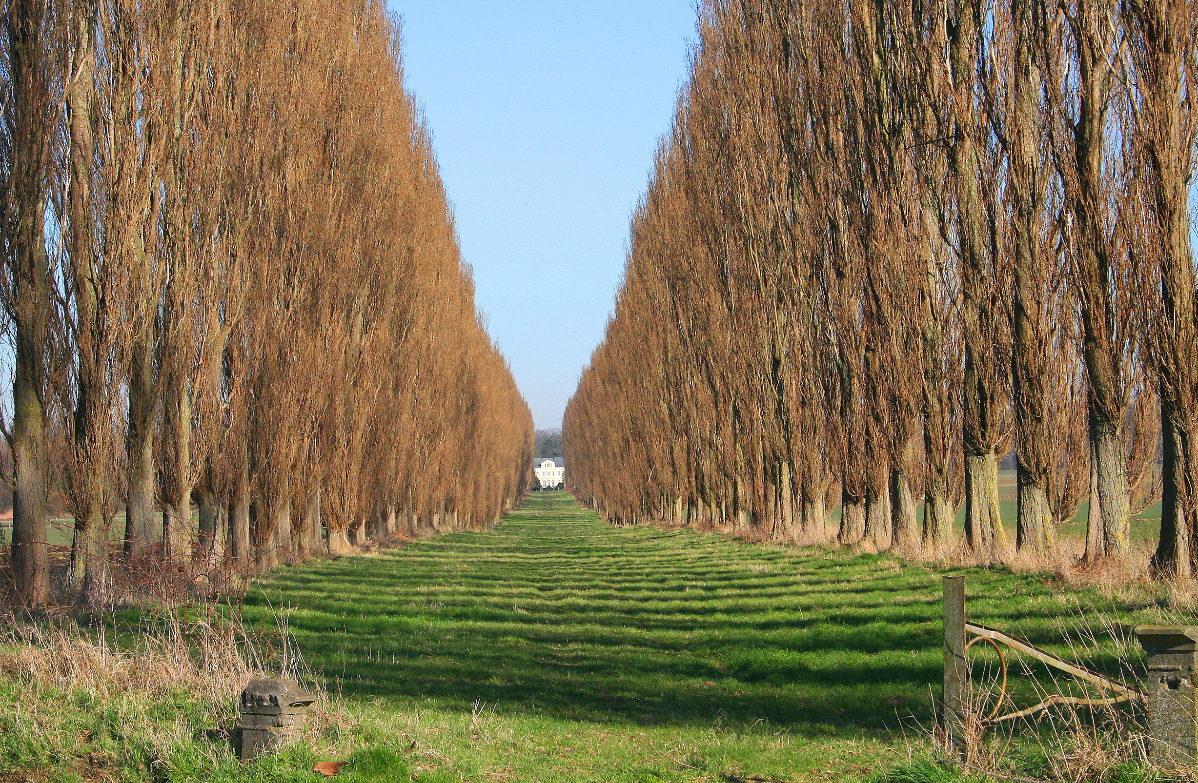 Havré (Belgium) – Rue Allende – Beaulieu Castle – Avenue with black poplars (Populus nigra cv 'Plantierensis').